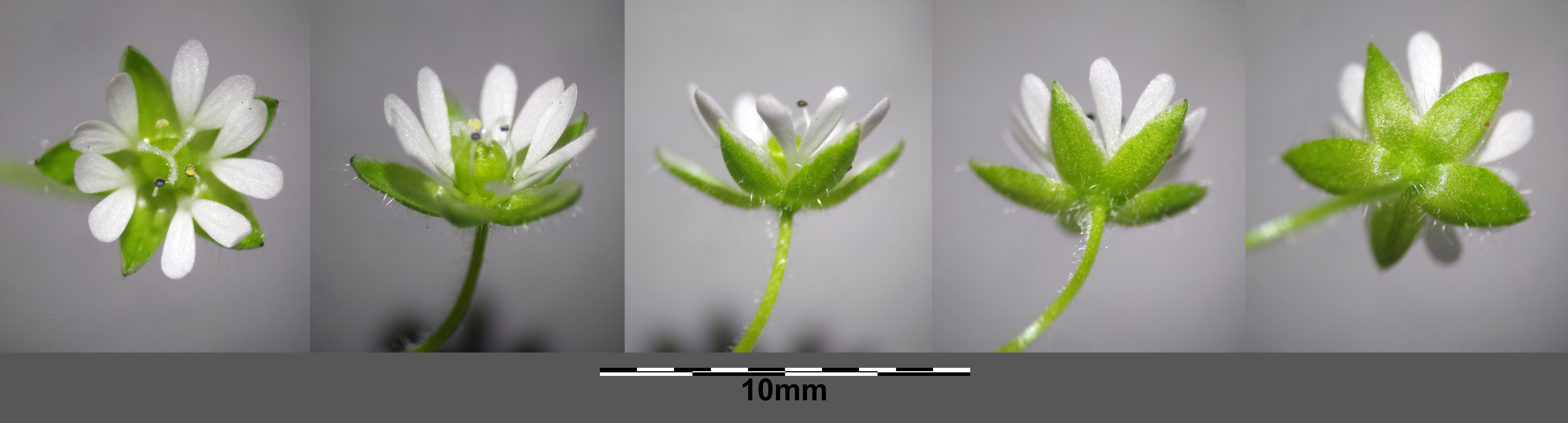 Flower Taxonym: Stellaria ruderalis ss Lepší et al. Stellaria ruderalis, a new species in the Stellaria media group from central Europe, in Preslia 91, 2019 Location: Sinawastingasse, Vienna-Floridsdorf - ca. 160 m a.s.l. Habitat: ruderal lawn